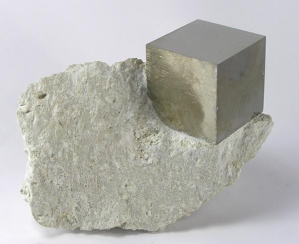 Pyrite Locality: Fuente del Moro, Navajún, La Rioja, Spain (Locality at ) Size: 8.7 x 6.1 x 3.9 cm. If you can get past the fact that they are "just" pyrites, you have to admit that these PERFECT cubes on matrix from Spain are amongst the most striking crystals in the mineral kingdom. Non-mineral people usually cannot believe that they form naturally, in fact! This is a LARGE, PRISTINE cube, wonderfully isolated and fully exposed on the matrix. It measures 2.5 cm on edge and has a mirror-golden luster. A fabulous-looking specimen!